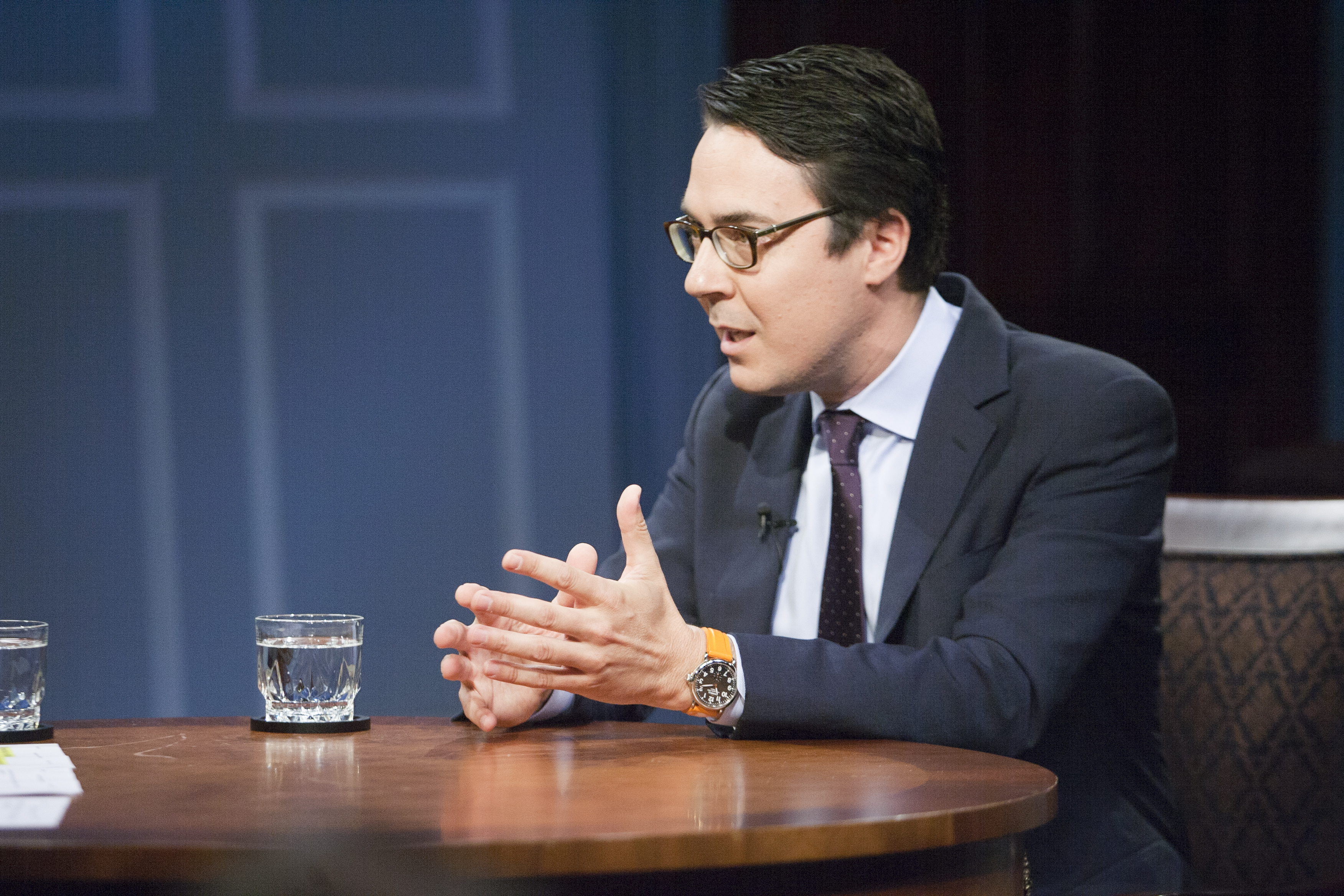 Ryan Lizza, An Early Look at the 2016 Presidential Race, 9/26/15